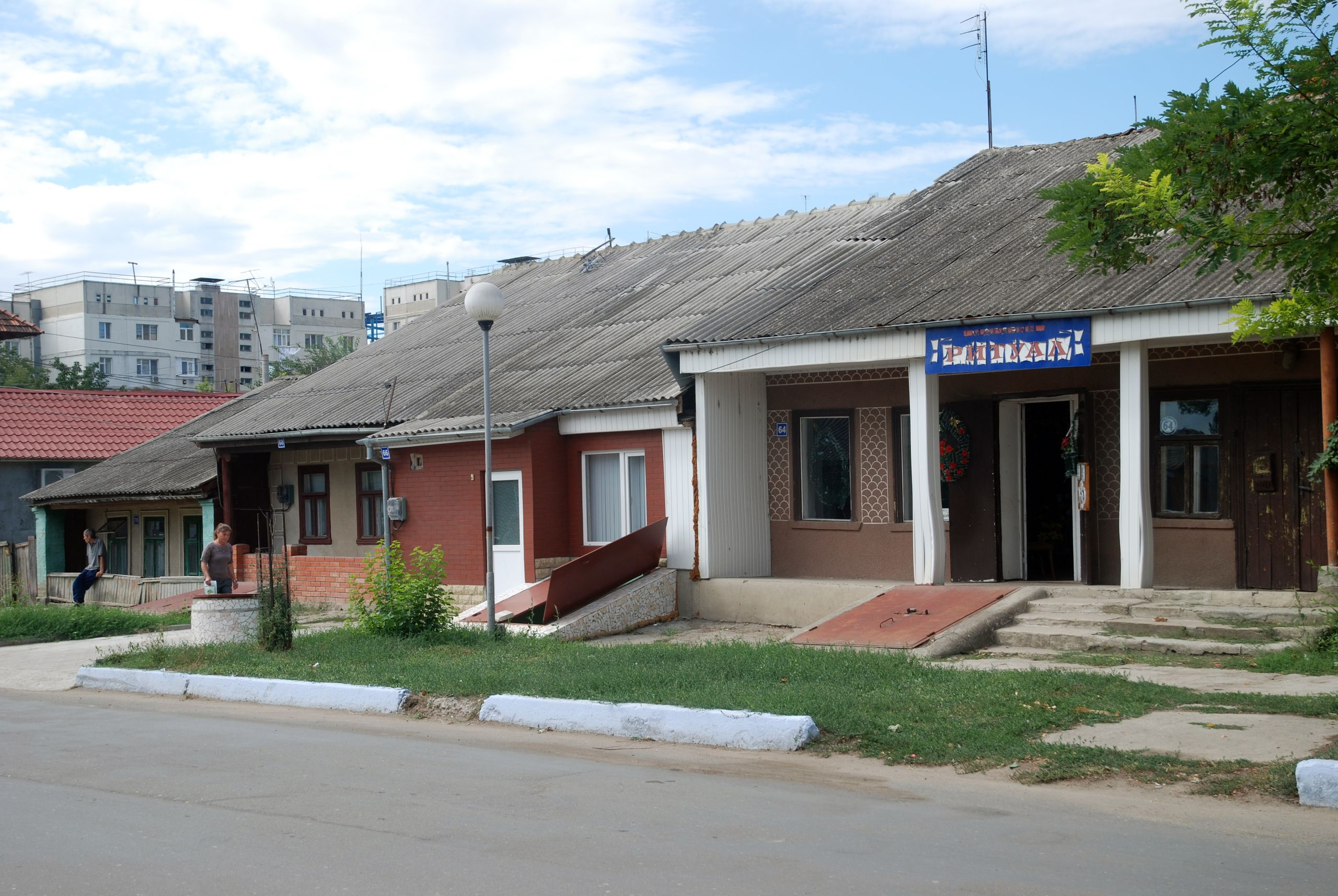 Comrat, center